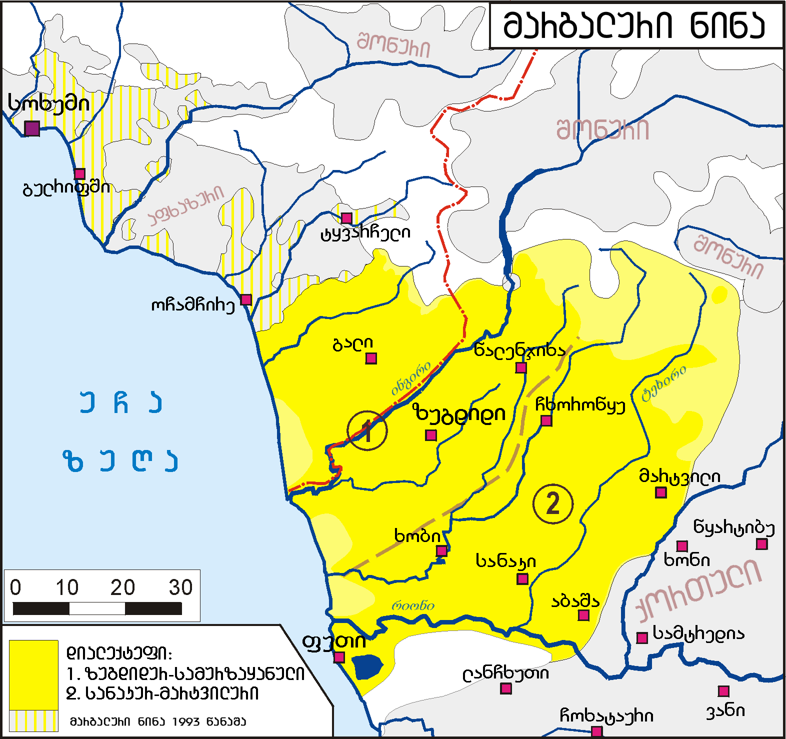 Map of Megrelian language area